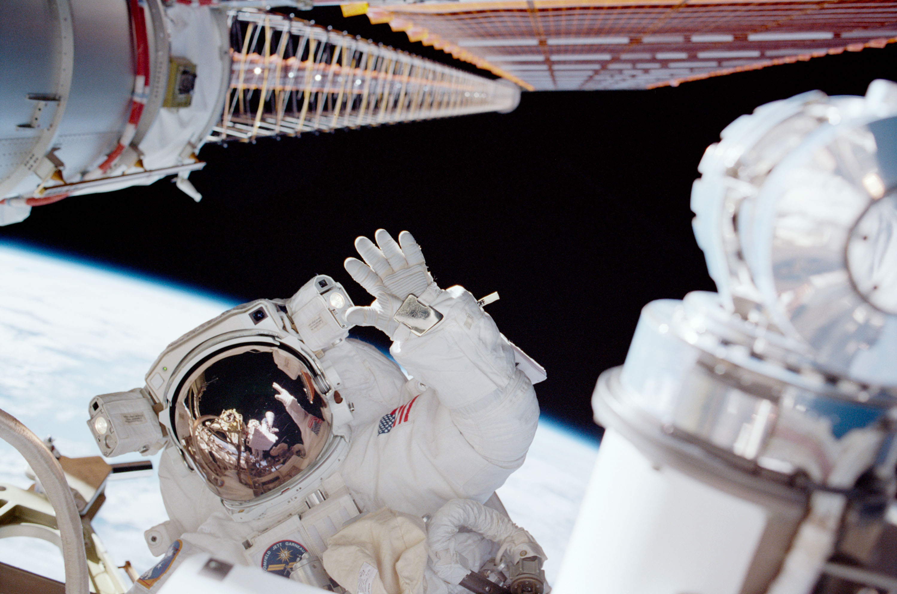 Astronaut Carlos I. Noriega, mission specialist, waves toward his space walk partner, astronaut Joseph R. Tanner, as Tanner snaps a 35mm frame during the second of three STS-97 sessions of extravehicular activity (EVA) on Dec. 5, 2000. Part of the newly-deployed solar array structure is at the top of the frame.